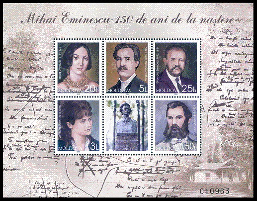 Stamp of Moldova; Raluca Eminovici (1816-1876); Gheorghe Eminovici (1812-1884); Iosif Vulcan (1841-1907); Veronica Micle (1850-1889); Mihai Eminescu (1850-1889)